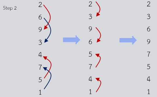 จากขั้นตอนเราจะได้รับลำดับ Bitonic ยาว 8 ซึ่งก็คือ 2, 3, 6, 9, 7, 5, 4, 1